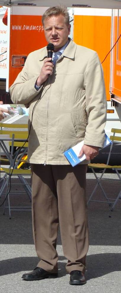 Finnish politician (Center Party) Lasse Hautala in Seinäjoki